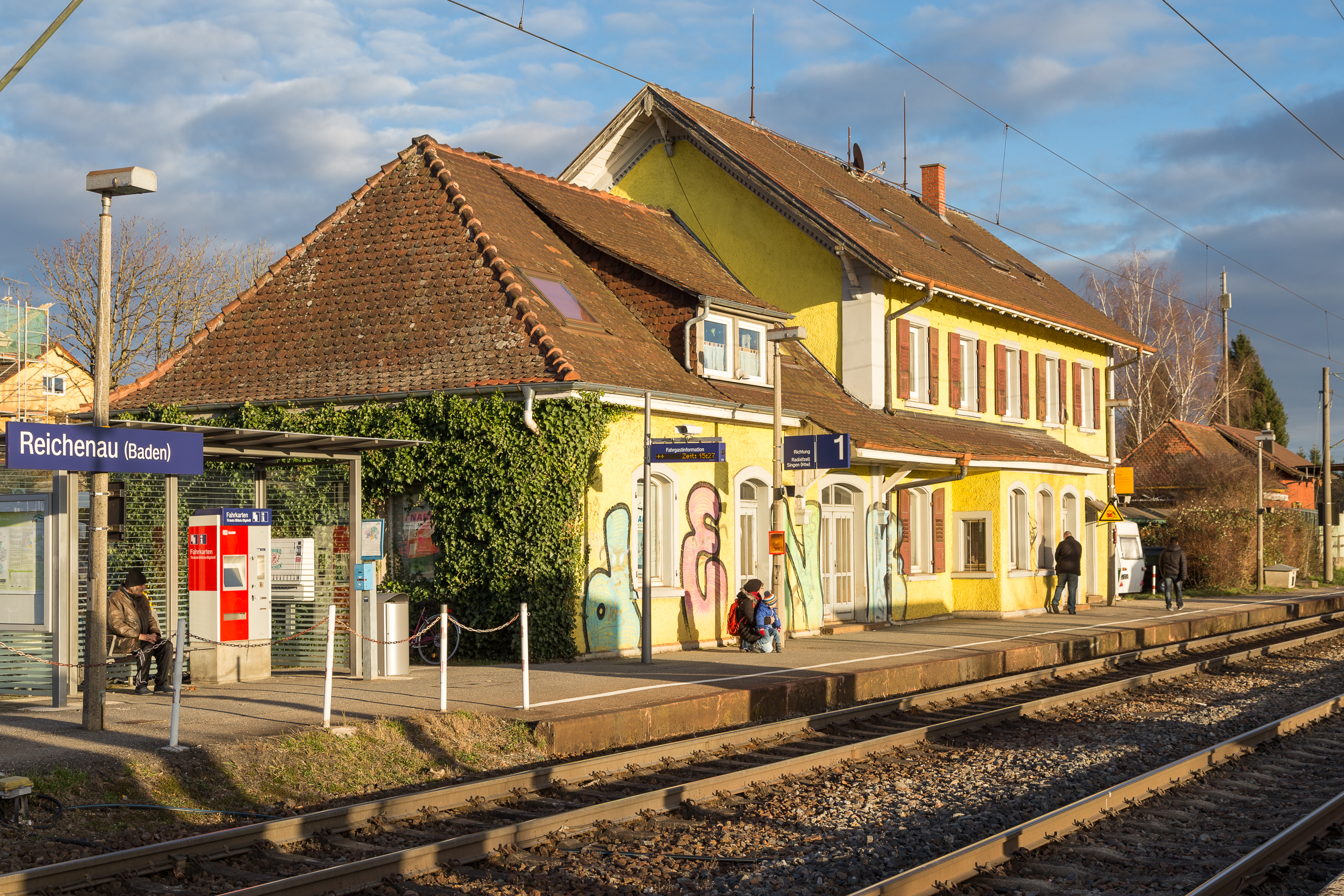 Reichenau (Baden) train station in dec. 2013